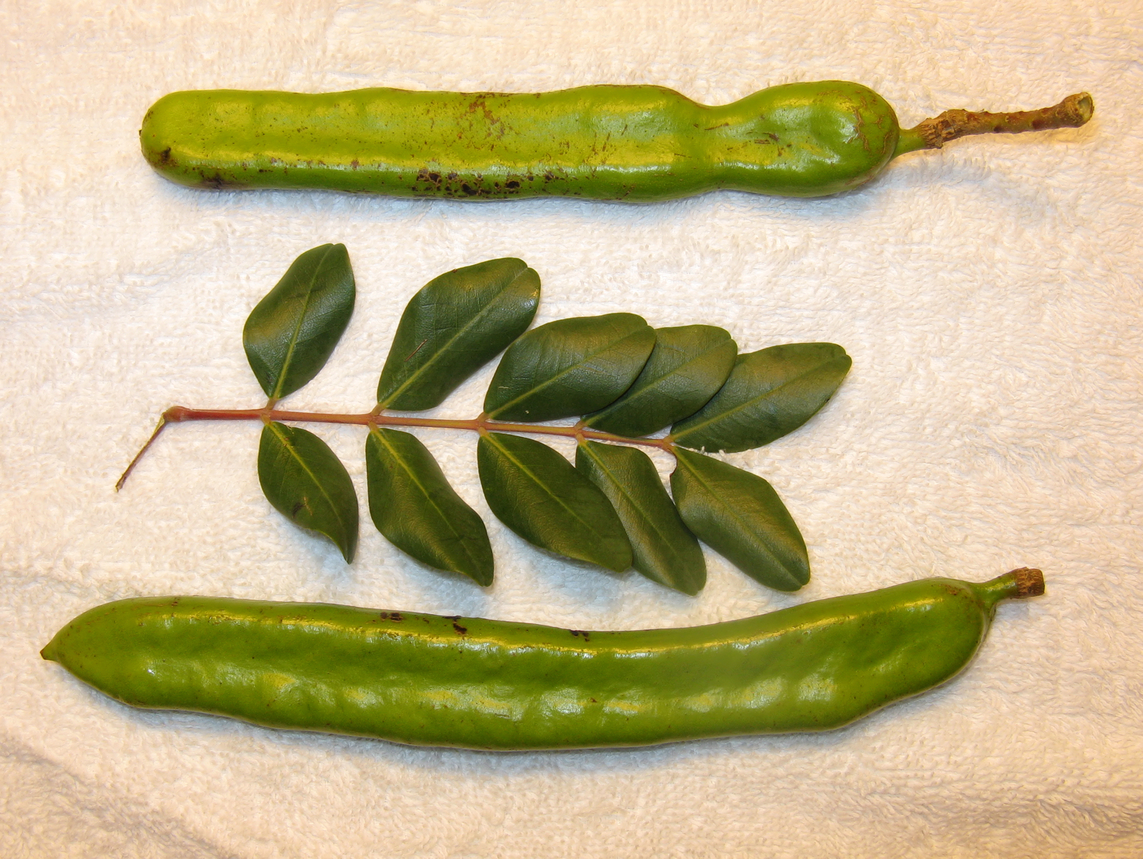 Carob pods and leaves, Ceratonia siliqua, in Soller, Majorca, Spain. These unripe pods, photographed in mid-June, are about 6 inches (15 cm) long.